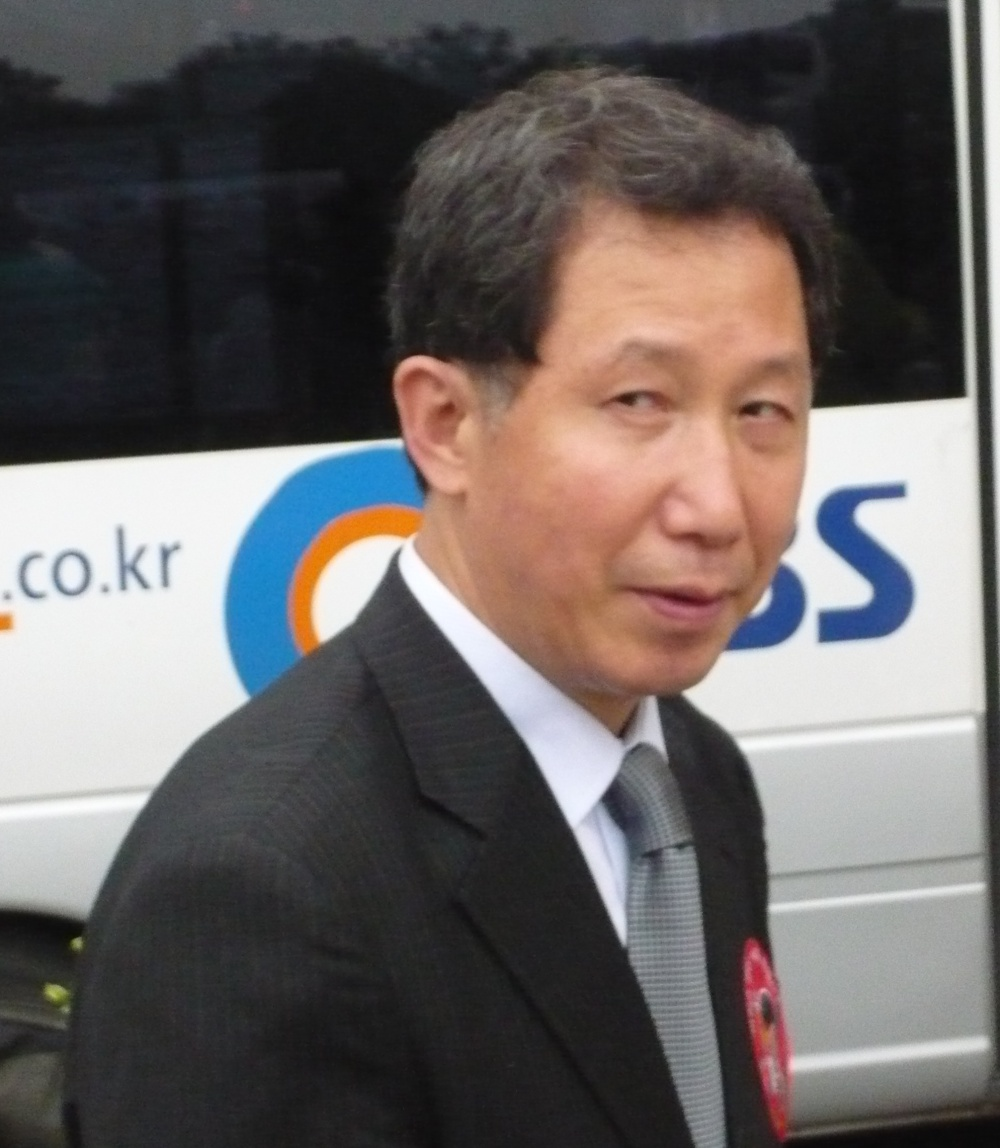 Kim Keun-Tae, during South Korea's Protest Against Importing American Beef on June 6, 2008